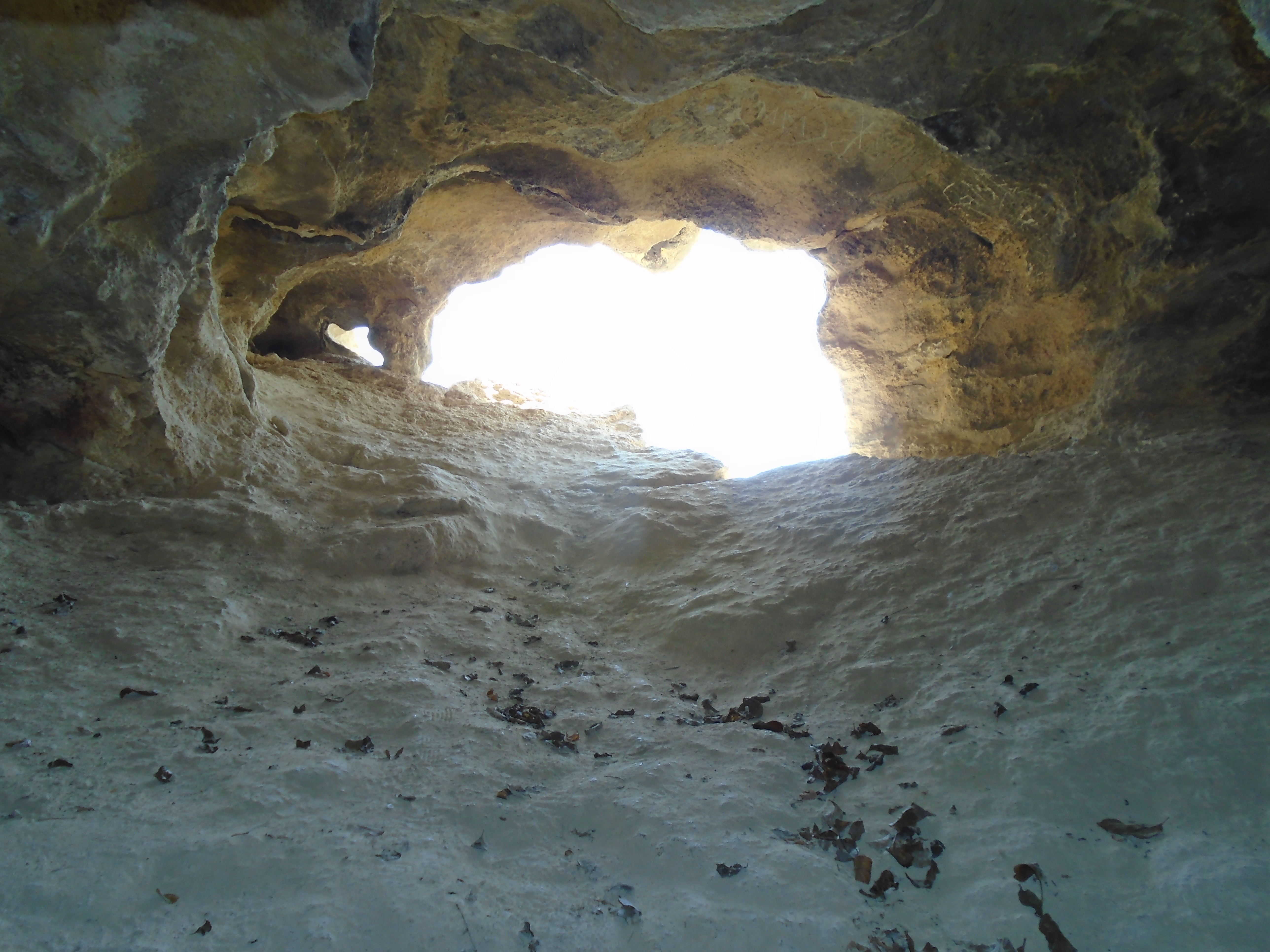 Inside of Keleti quarry No 4 Cave.